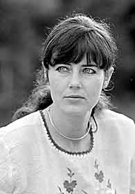 Renate Feyl on May 17, 1975 in Berlin-Blankenburg